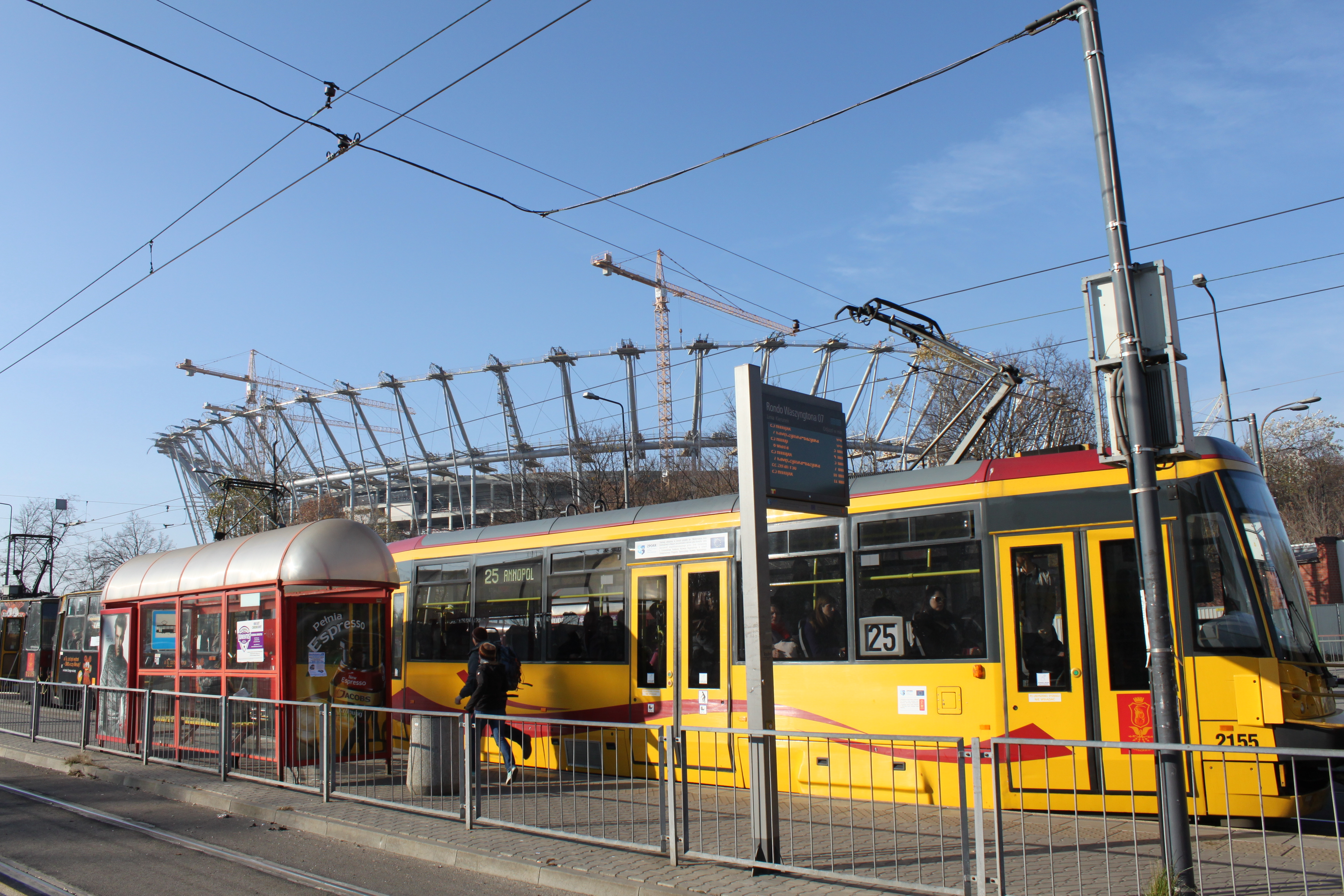 FPS 123N tram (#2154+2155, built in 2007) on tram line 25, on tram stop Rondo Waszyngtona 07, Aleja Księcia Józefa Poniatowskiego in Warsaw, Poland.